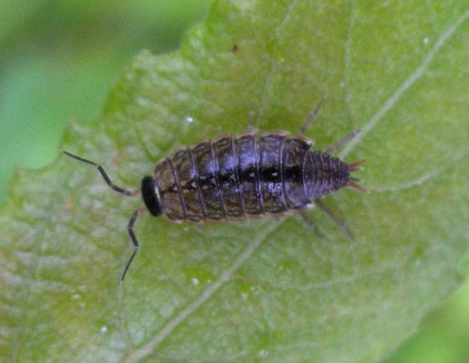 The common striped woodlouse Philoscia muscorum in waste ground in Manchester